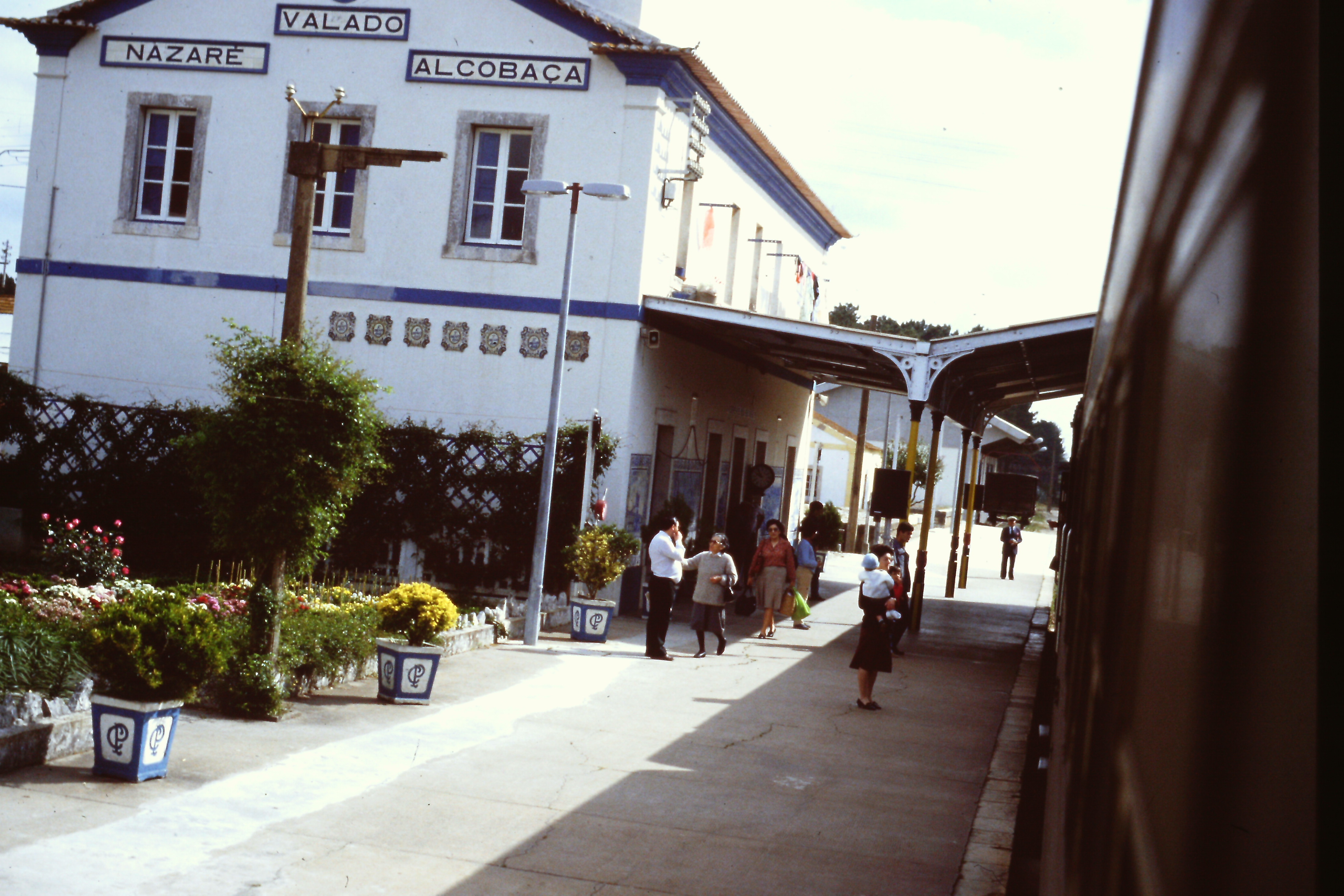 Valado train station at Oeste railway line; Portugal